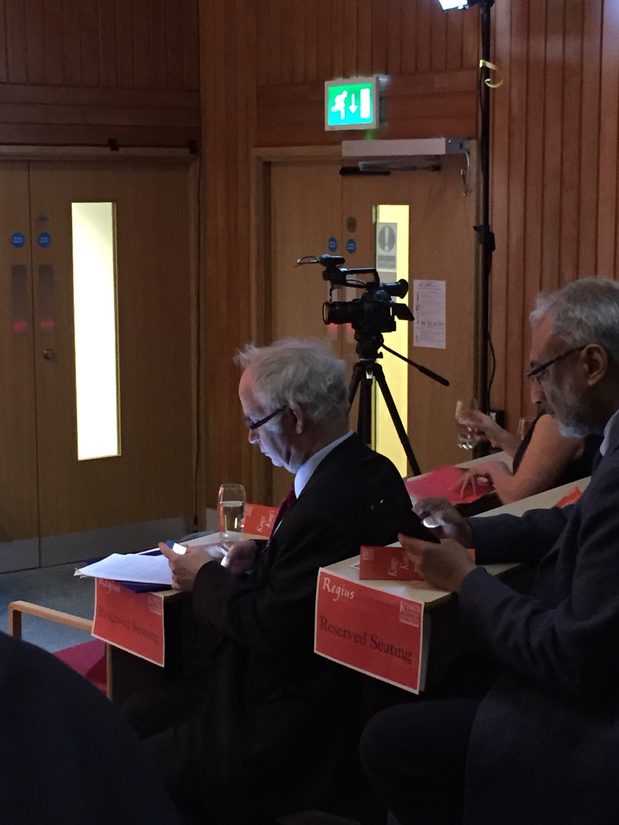 At the Regius Professor of Psychiatry Inaugural Lecture, Institute of Psychiatry, King's College London, May 2017